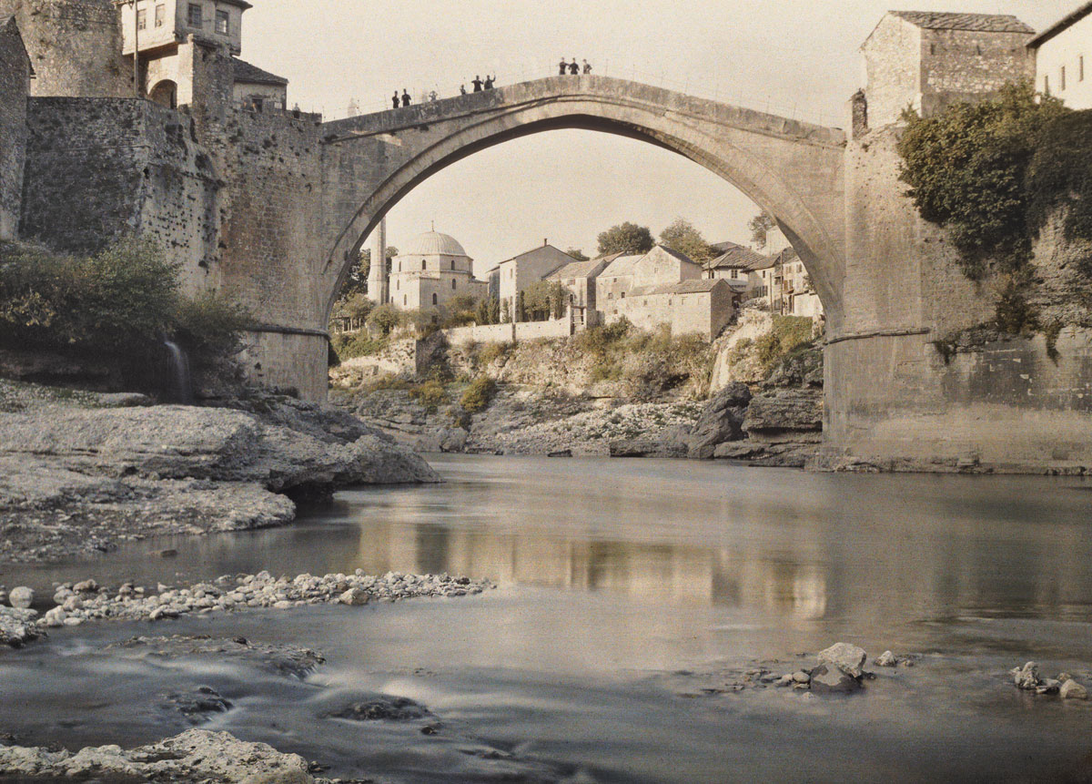 Autochrome from Albert Kahn's Archives de la planète